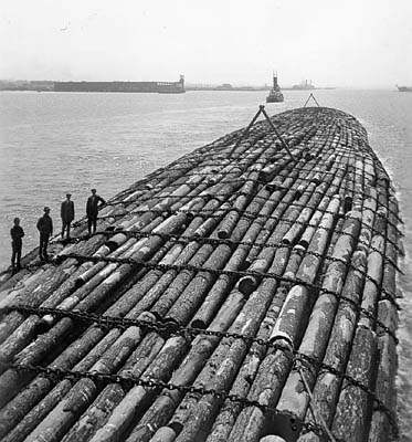 Benson sea-going log raft by Simon Benson